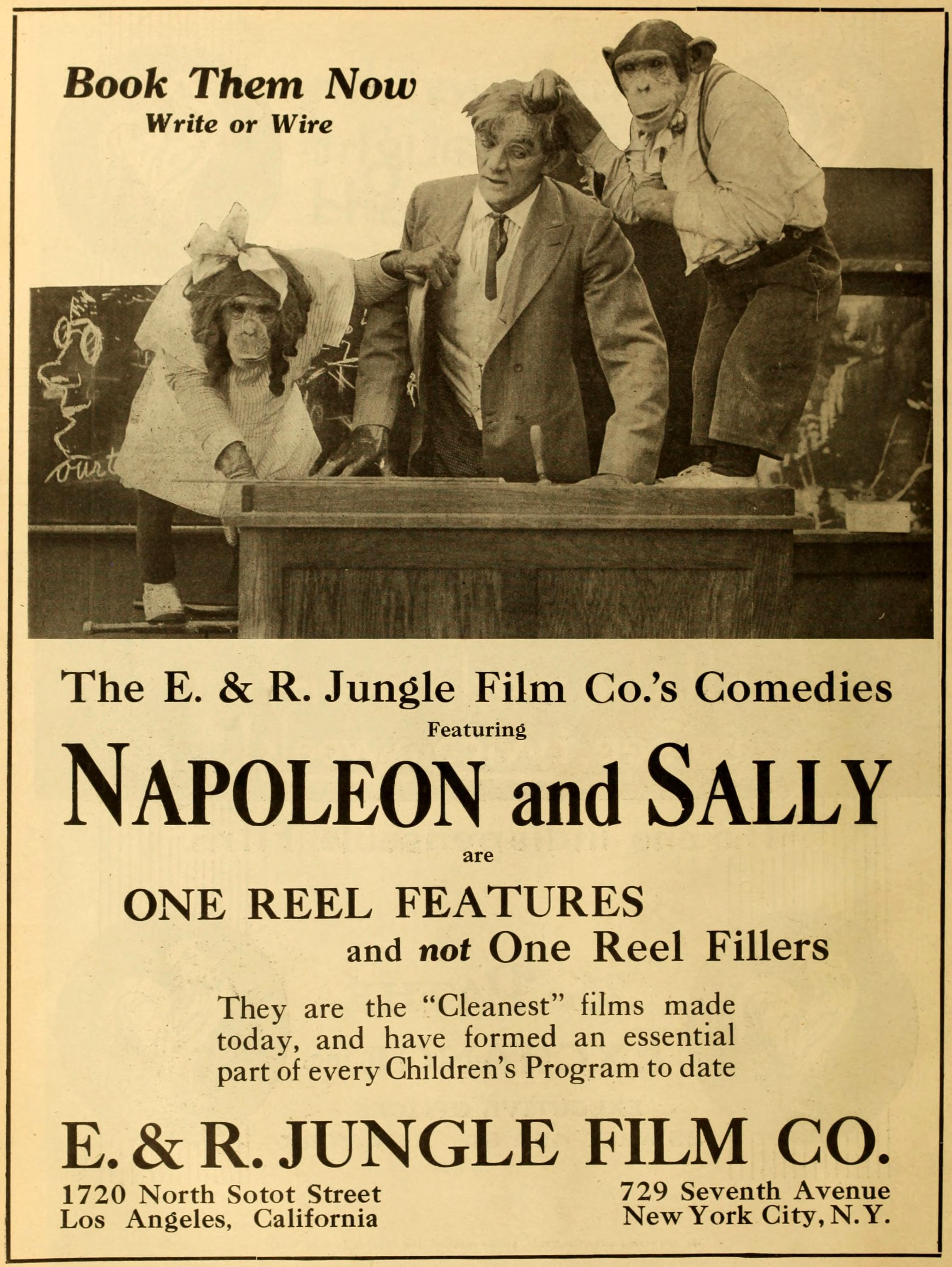 Advertisement in The Moving Picture World for the film Napoleon and Sally (1916).